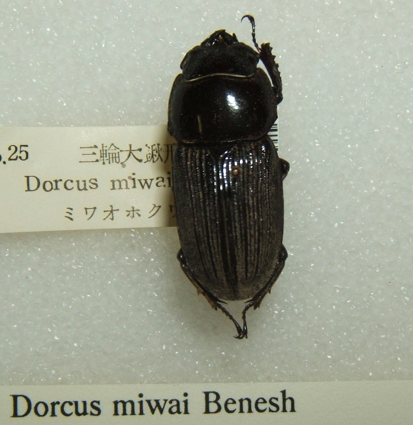 Dorcus miwai adult taken by Shawn Hanrahan at the Texas A&M University Insect Collection in College Station, Texas.